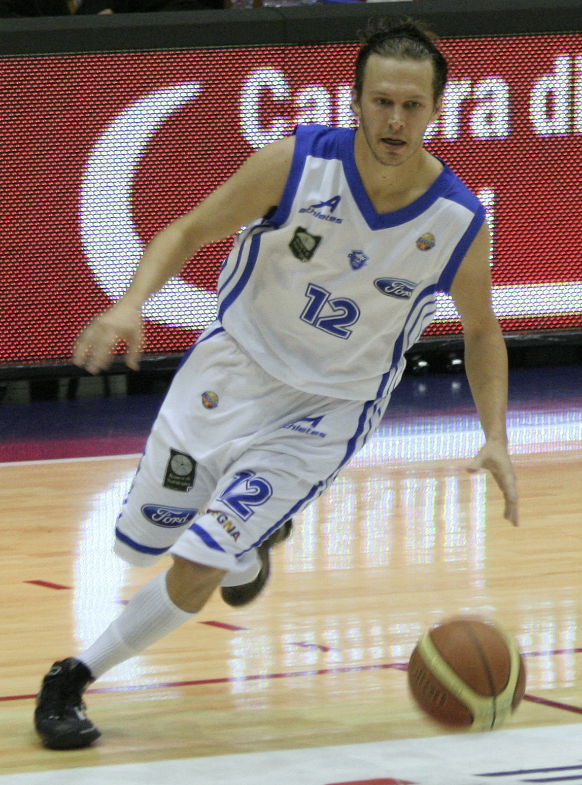 Travis Diener, Basketball player of Dinamo Sassari